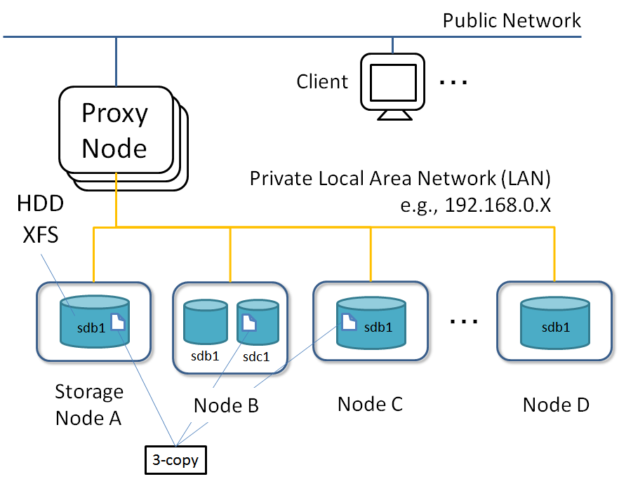 Object Storage Server